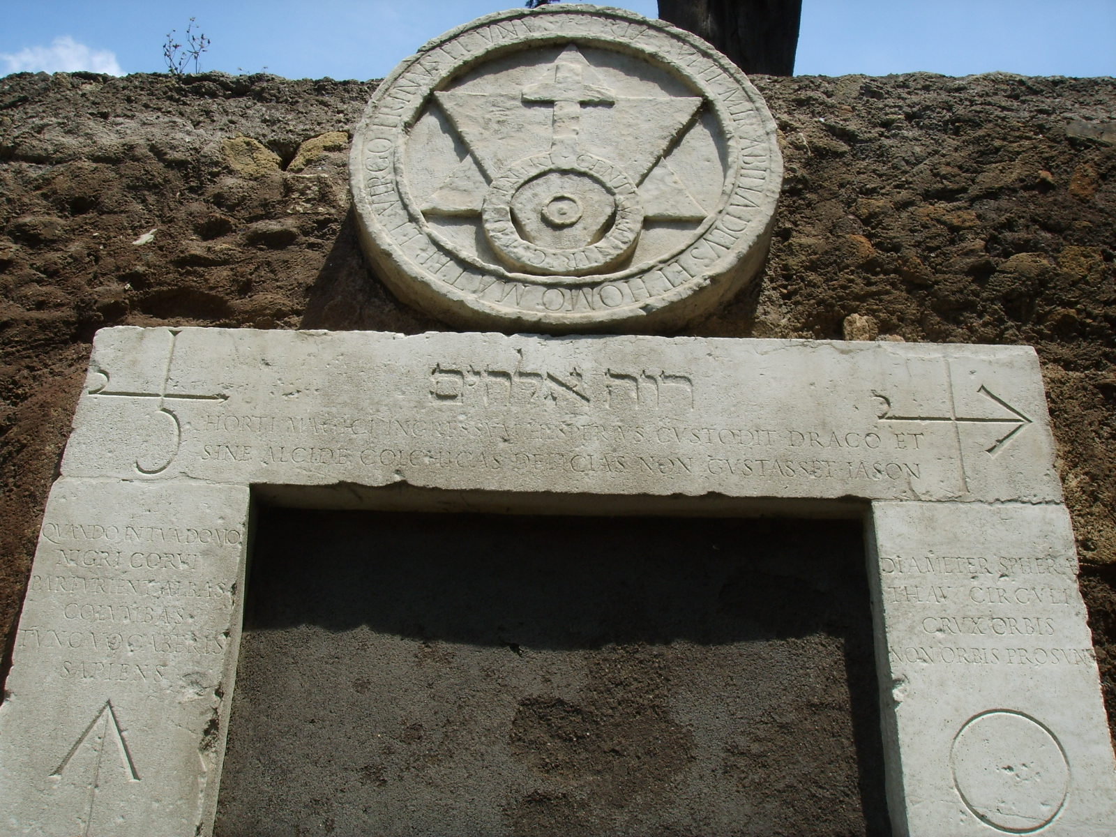 Magic gate (Porta Alchemica or Porta magica) in Piazza Vittorio Emanuele, in Rome, Italy. The Latin text inscribed between the two circles reads: TRIA SUNT MIRABILIA DEUS ET HOMO MATER ET VIRGO TRINUS ET UNUS ICS Class 24.15.04 Arrowheads. ICS Class 26.01.08 Letters, numerals or punctuation forming or bordering the perimeter of a circle ICS Class 26.01.17 Two concentric circles. ICS Class 26.05.16 Triangles touching or intersecting.